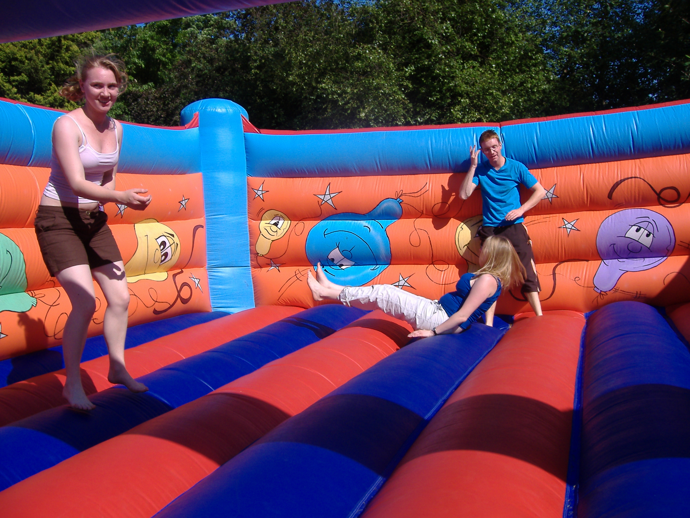 The Nightingale Hall Summer Party Bouncy castle.